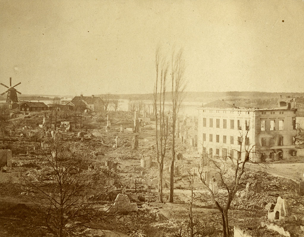 Strängnäs after the fire in 1871. Format: Albumen print